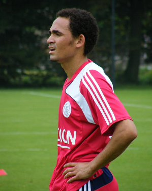 Daylon Claasen, player of football club Ajax Amsterdam